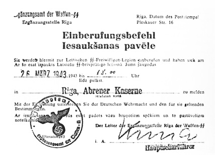 Latvian Legion conscription order 26.03.1943